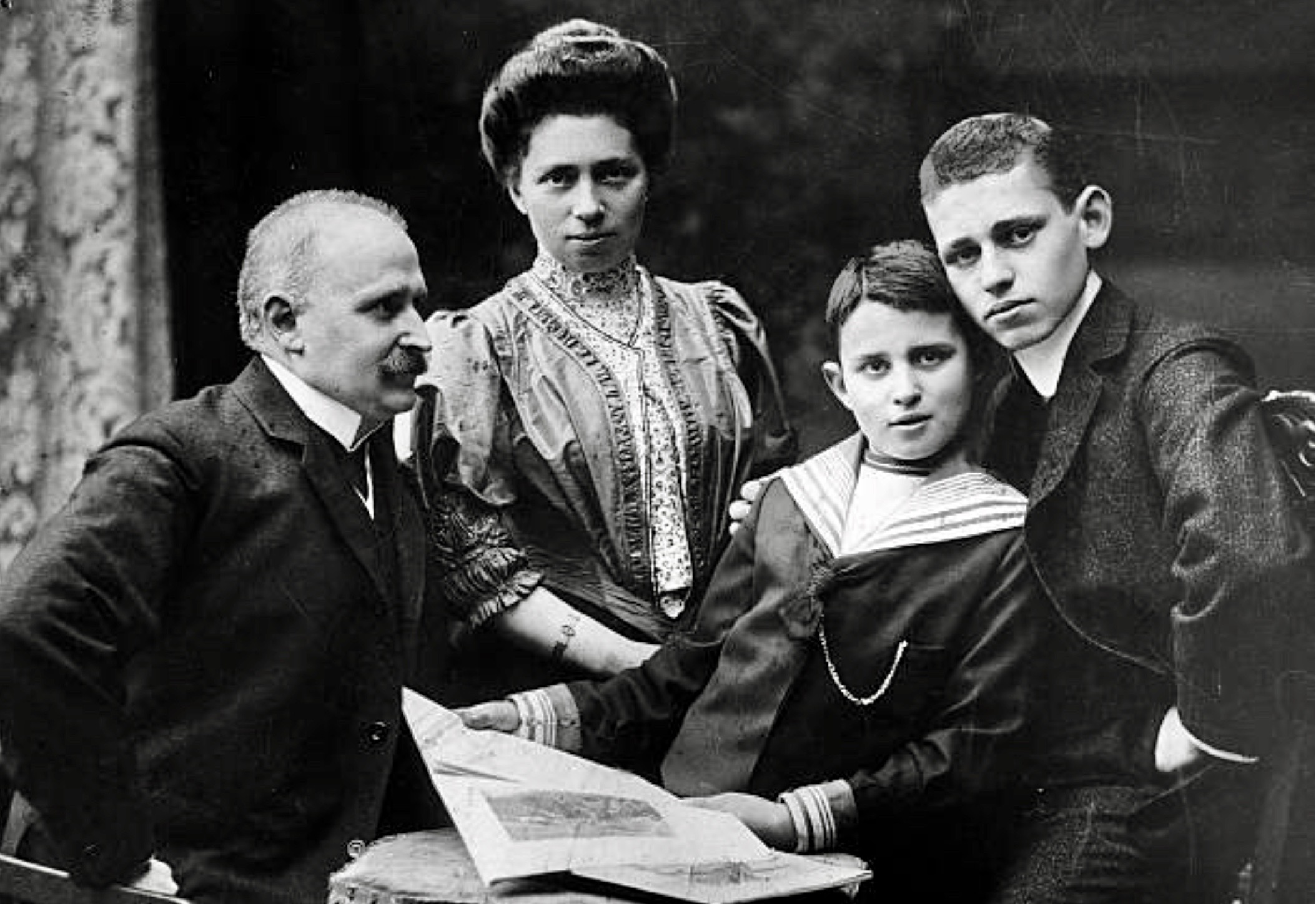 The entrepreneur Carl Zuckmayer (1864–1947) with his wife Amalie Zuckmayer (1869–1954), née Goldschmidt, and both sons Carl (1896–1977) and Eduard (1890–1972) in Mainz in July 1906. Eduard became a pianist, composer, conductor and pedagogue who got nationwide recognition in Turkey whereas Carl junior became a famous German writer.